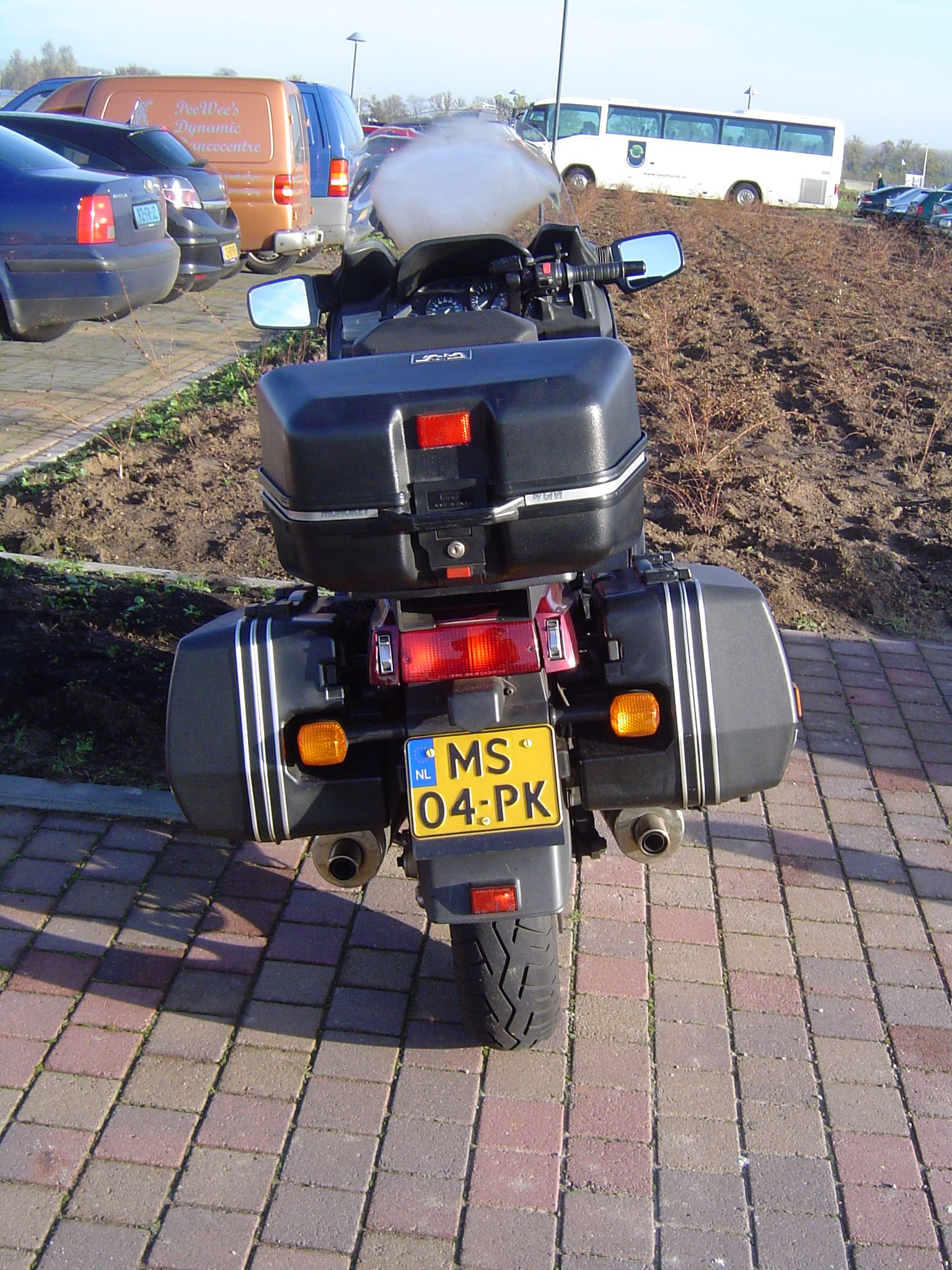 Kofferset on Kawasaki GTR 1000